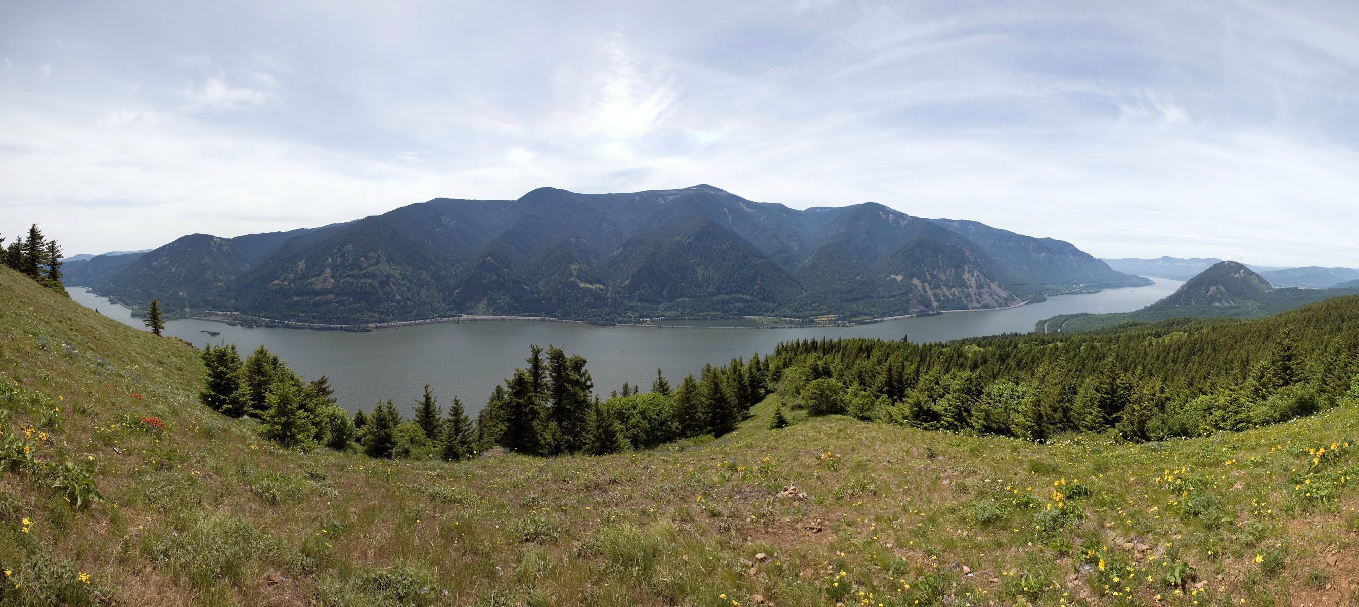 The Columbia River Gorge from Dog Mountain, Washington. This is a panoramic image made from 6 photos.